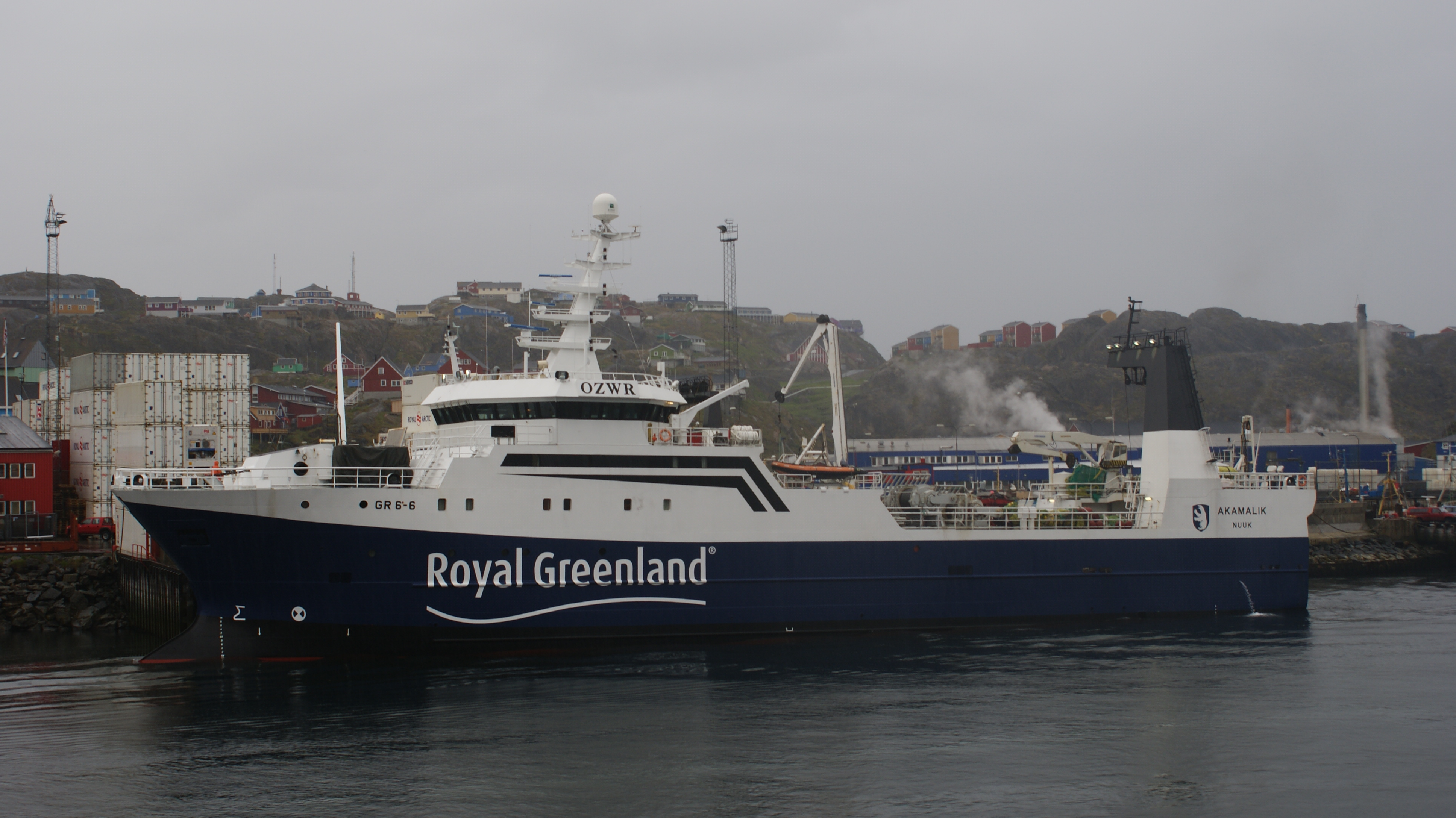 Royal Greenland fishing vessel "Akamalik", anchored in Sisimiut port, Greenland.